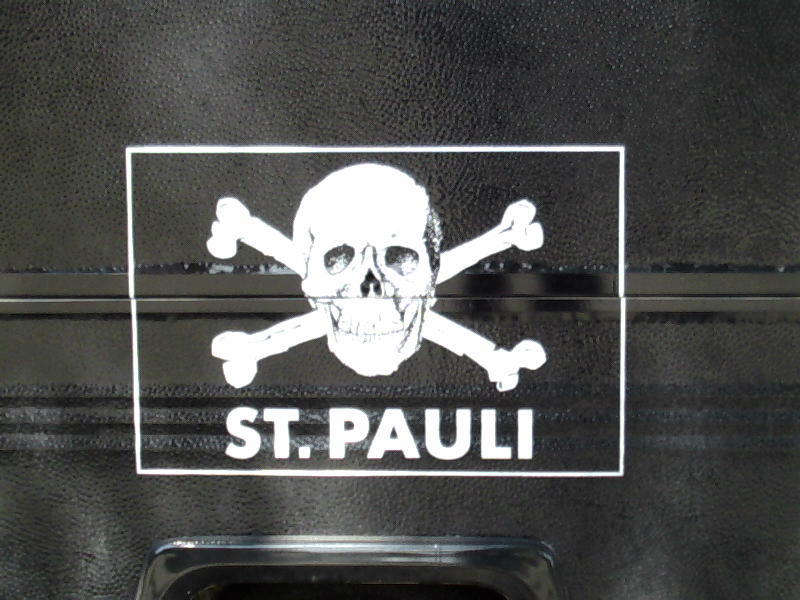 Logo for FC St Pauli, a soccer club in St. Pauli (Hamburg) Germany